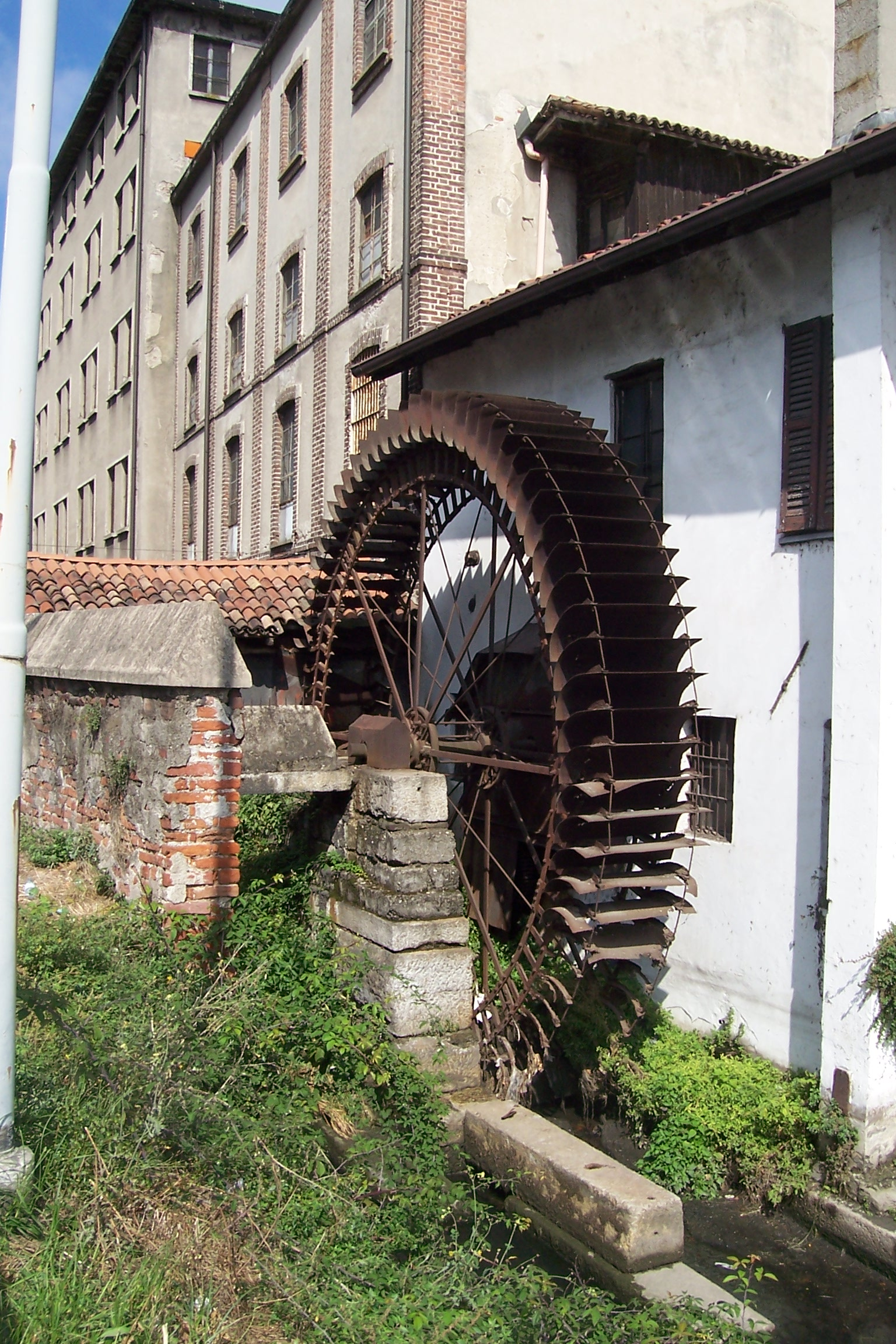 Wheelmill in San Giuliano Milanese up a lateral canal of Redefossi